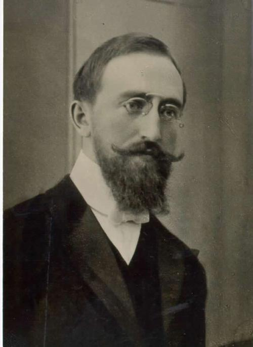 Lovro Pogačnik (1880-1919)